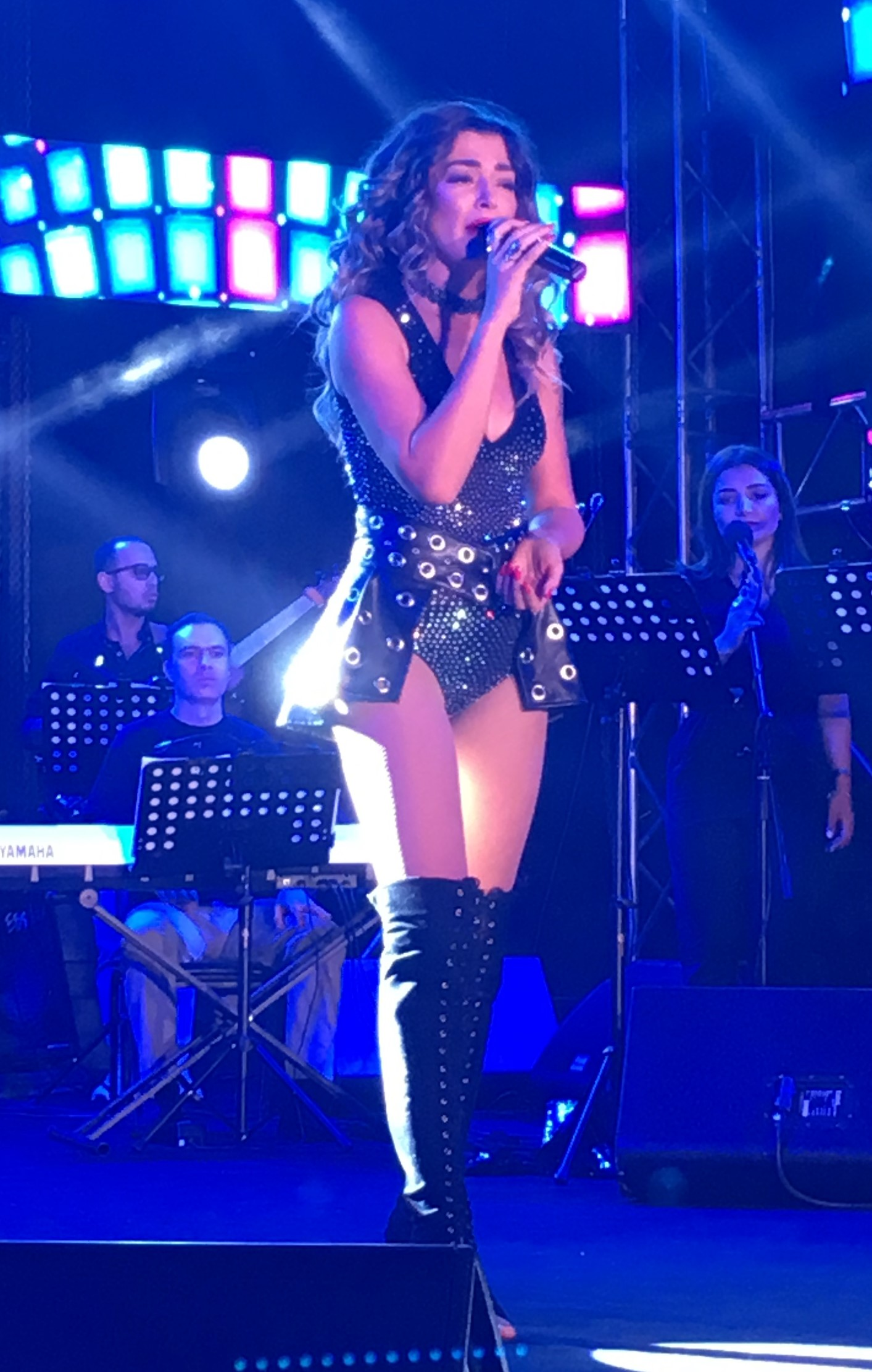 Iveta Mukuchyan on September 14